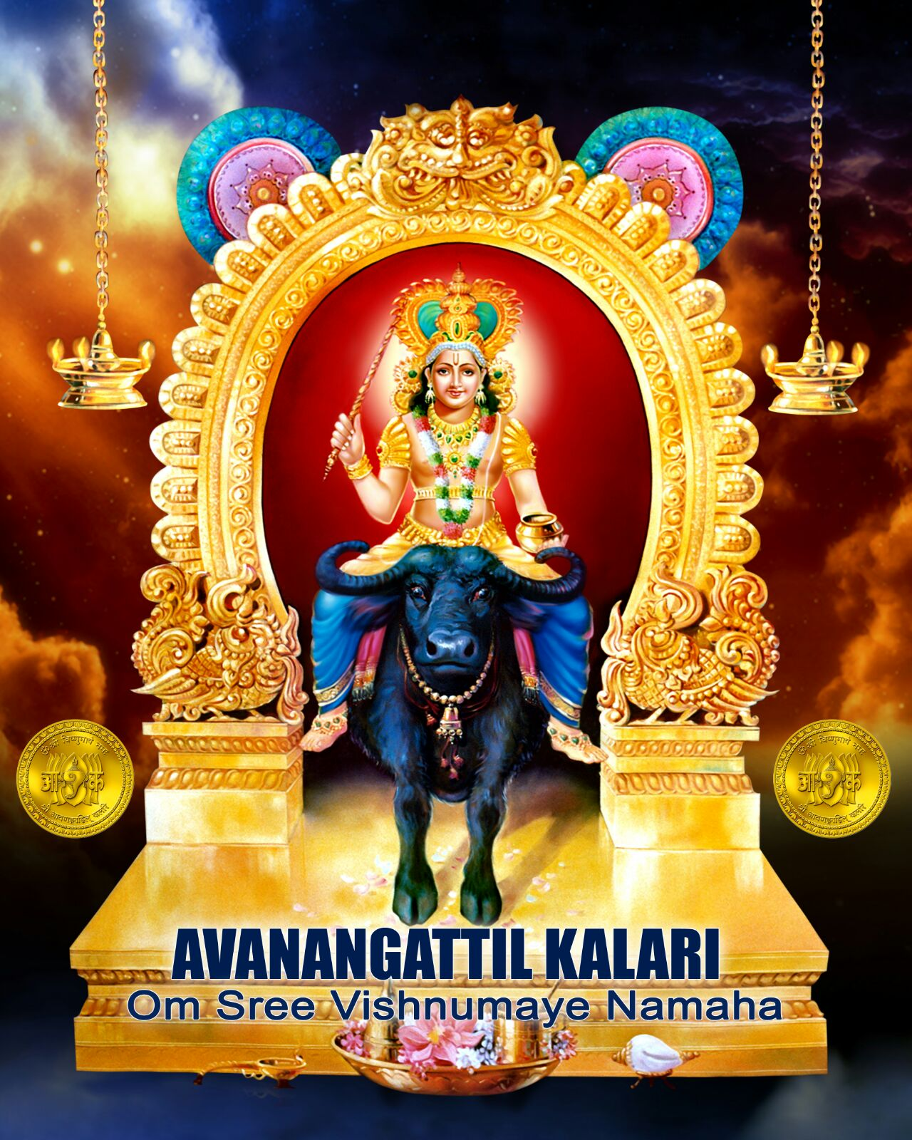 Vishnumaya